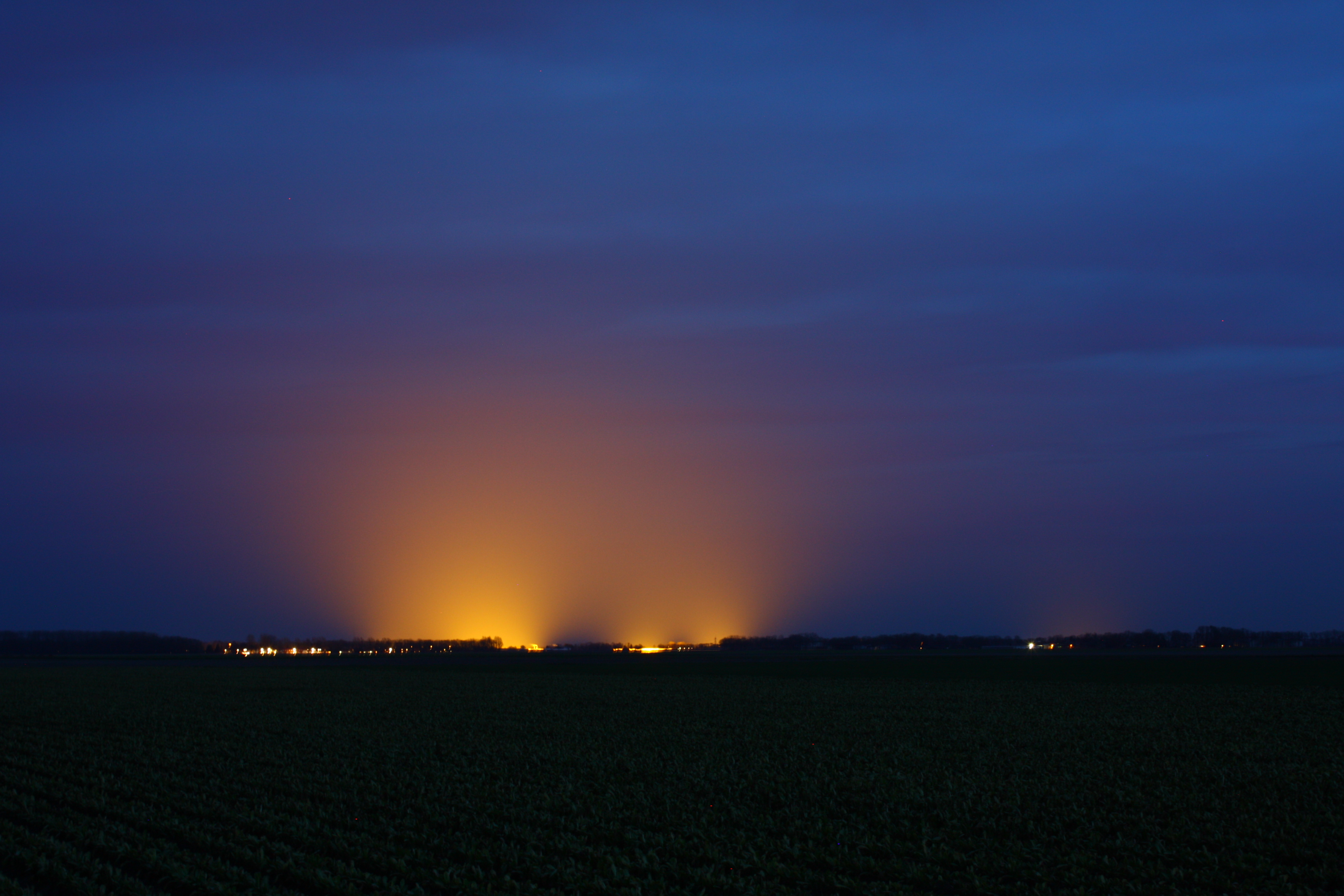 Licht pollution near Luttelgeest, seen from Bant, ± 7km distance